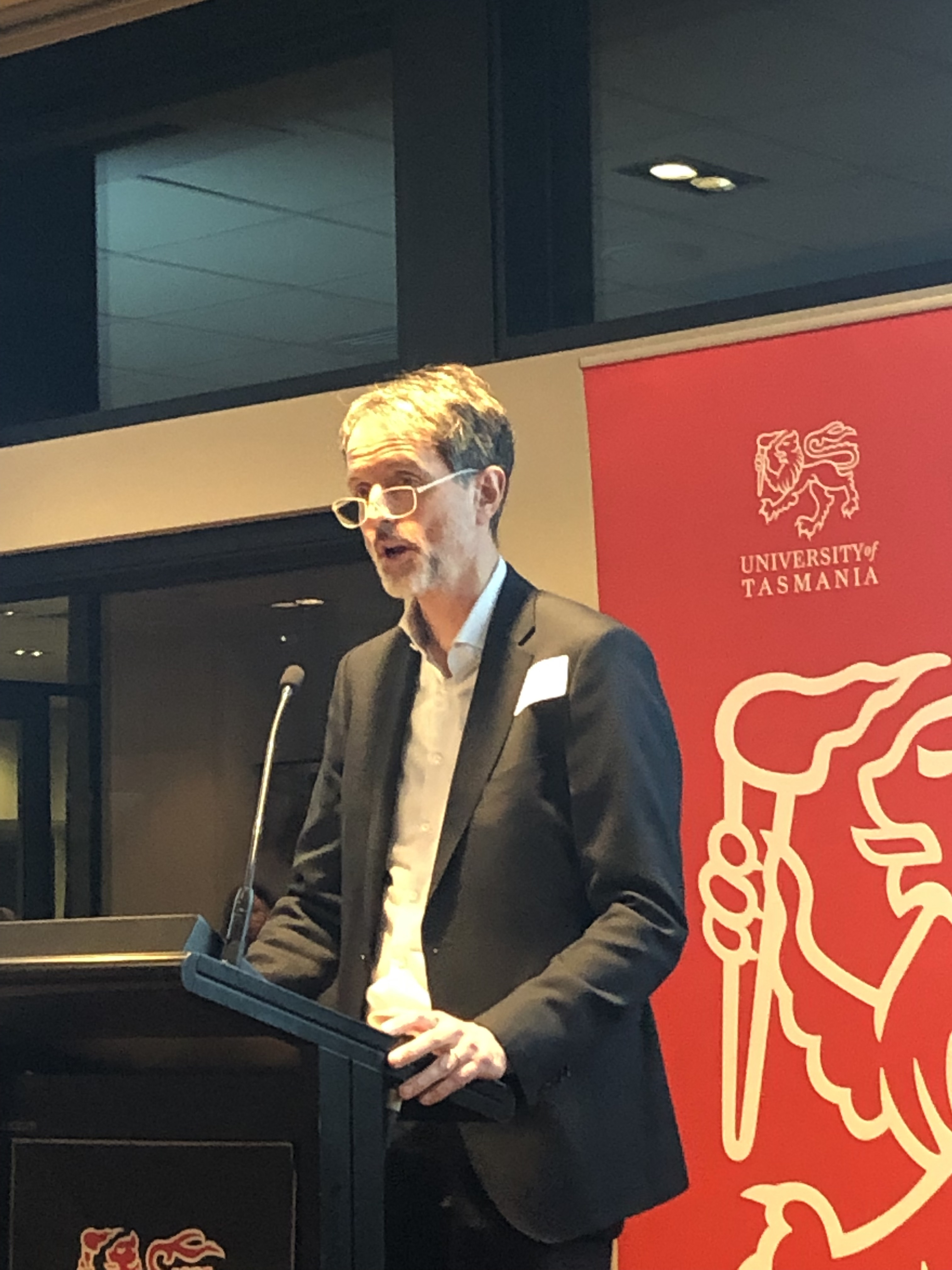 Professor Rufus Black, Vice-Chancellor of the University of Tasmania, speaking in Melbourne in May 2019.